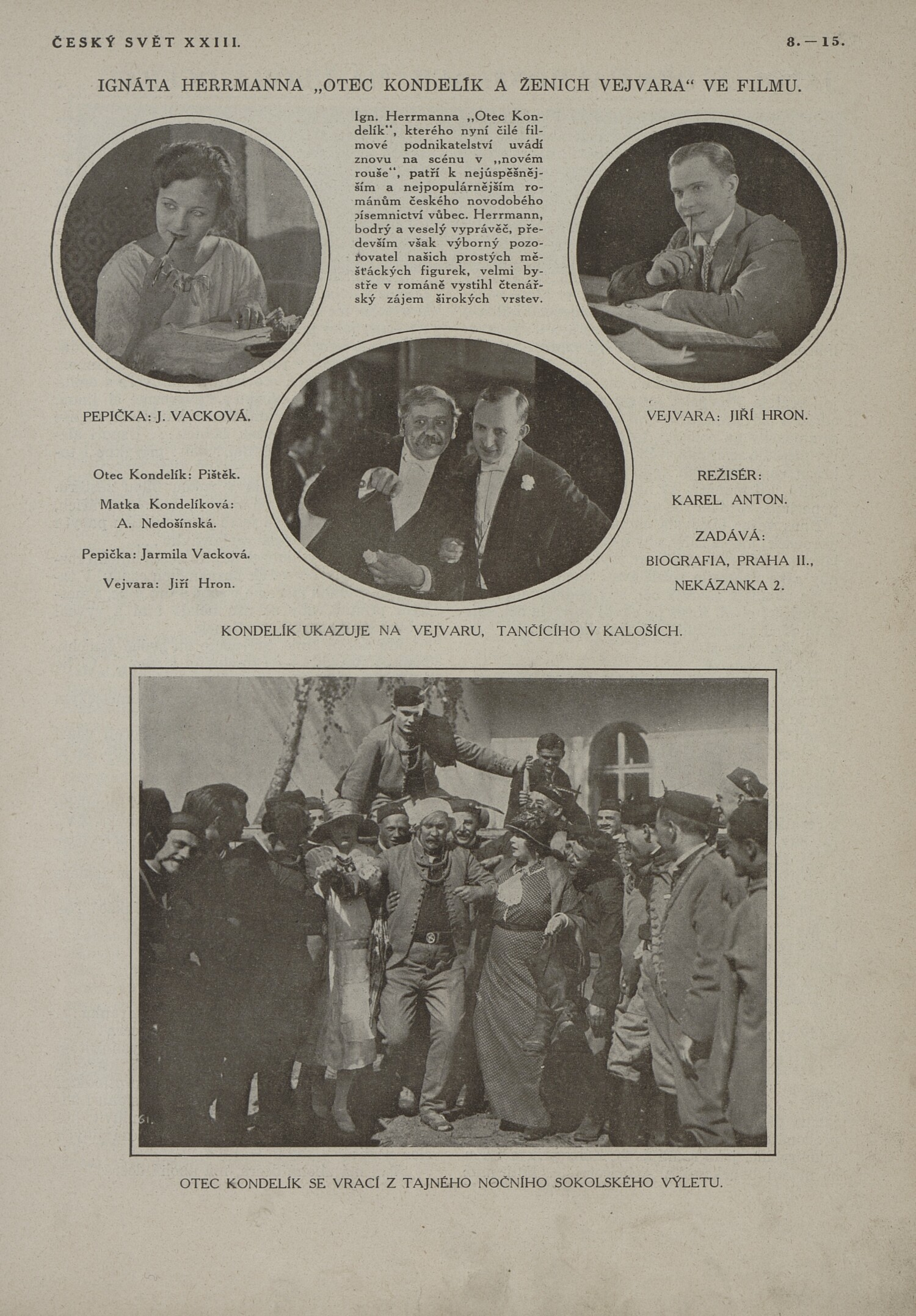 Czech movie "Otec Kondelík a ženich Vejvara" 1926, director Karel Anton